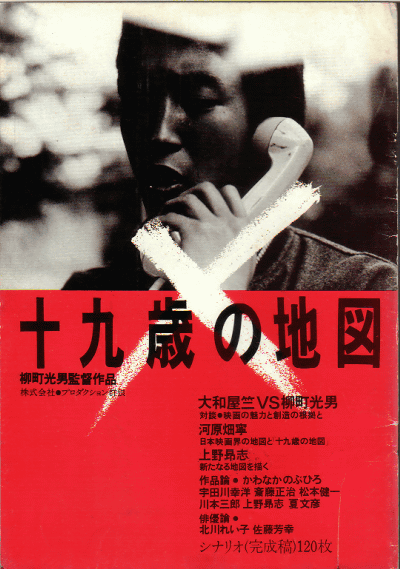 Scan of movie flyer for Jukyusai no Chizu